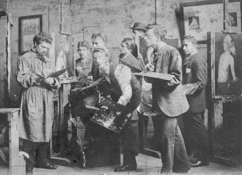 Studenten Rijksacademie, Amsterdam. V.l.n.r. Van der Sande Lacoste, Frankfort, Smith, Muller, Dankmeyer, Legras, Veth en Prins (1882)